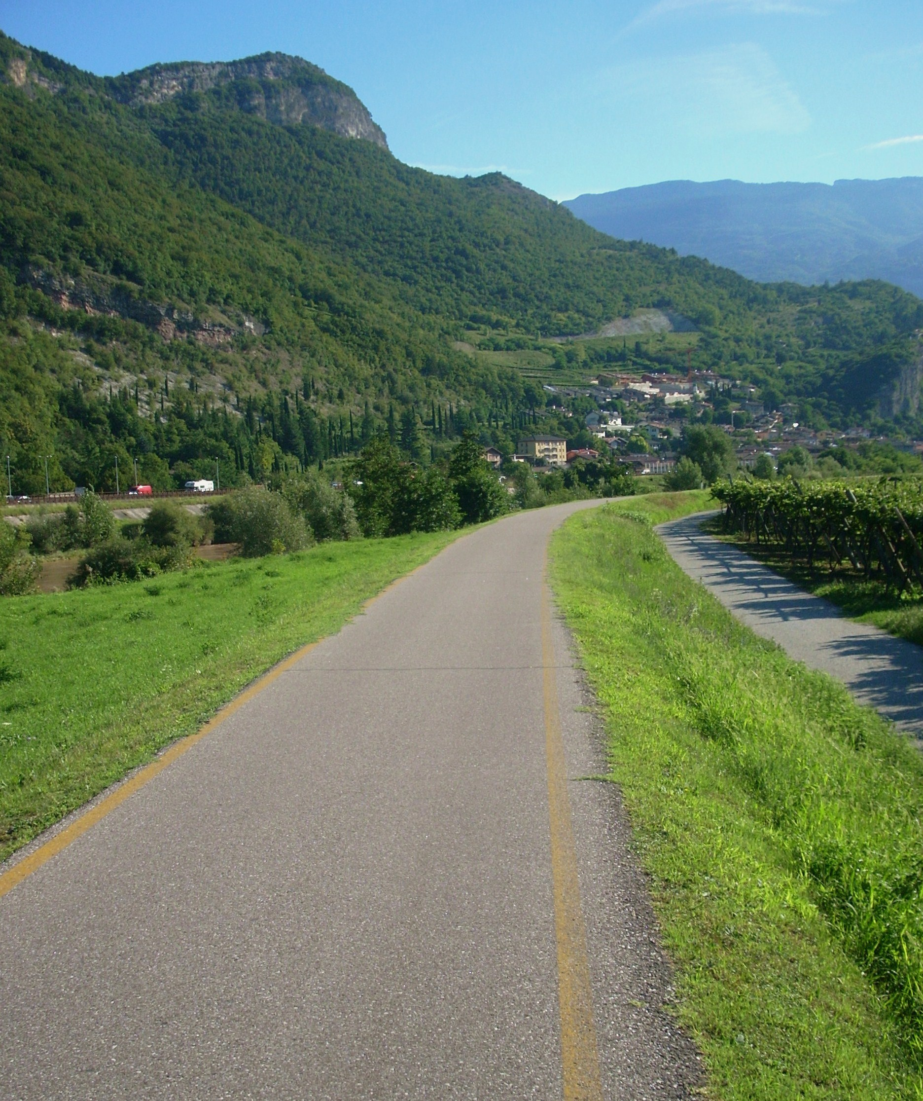 Bikeway of the Adige Valley near Nomi, in the Province of Trento, North Italy